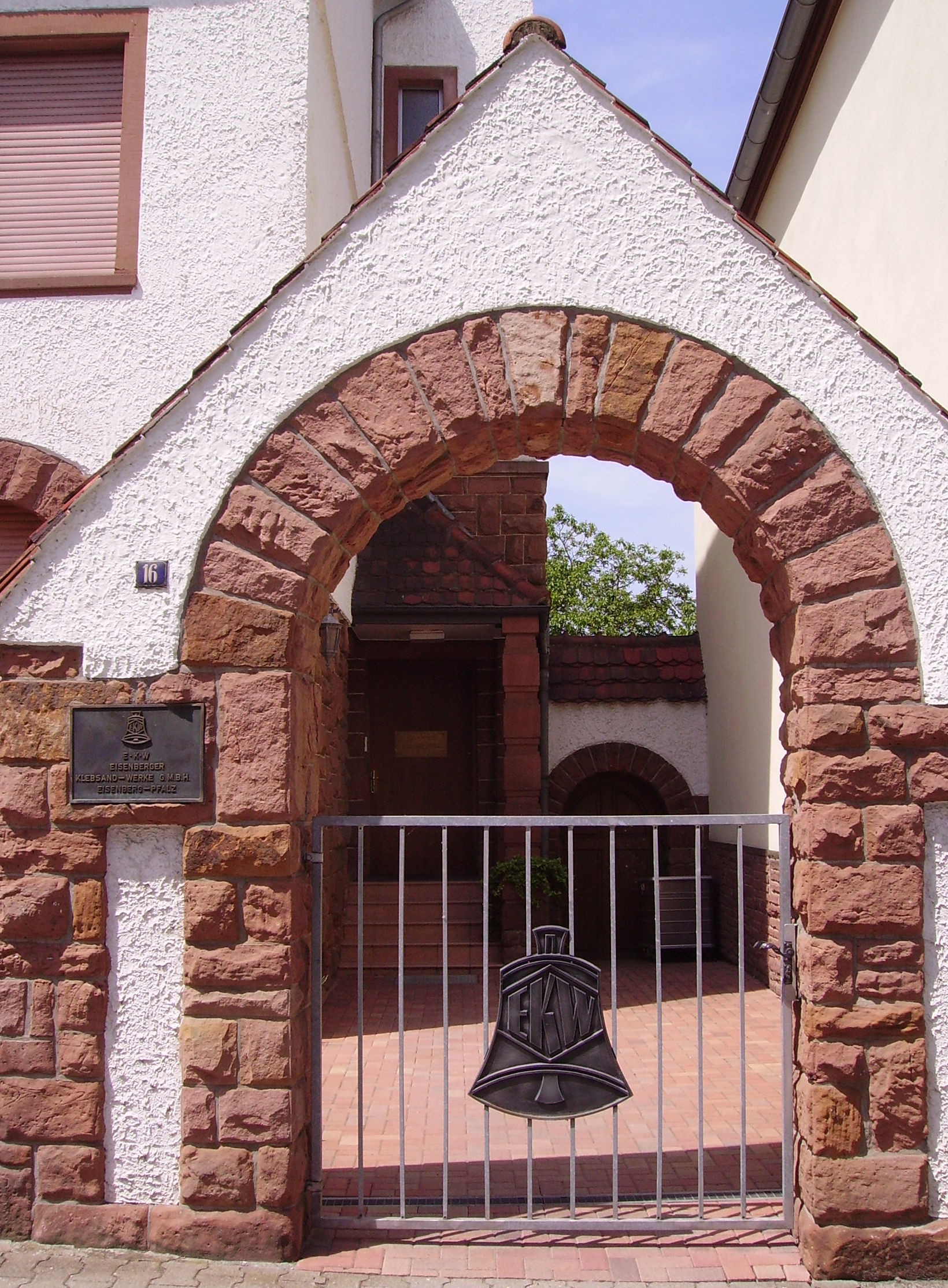 sights of Eisenberg in the Palatinate, Germany